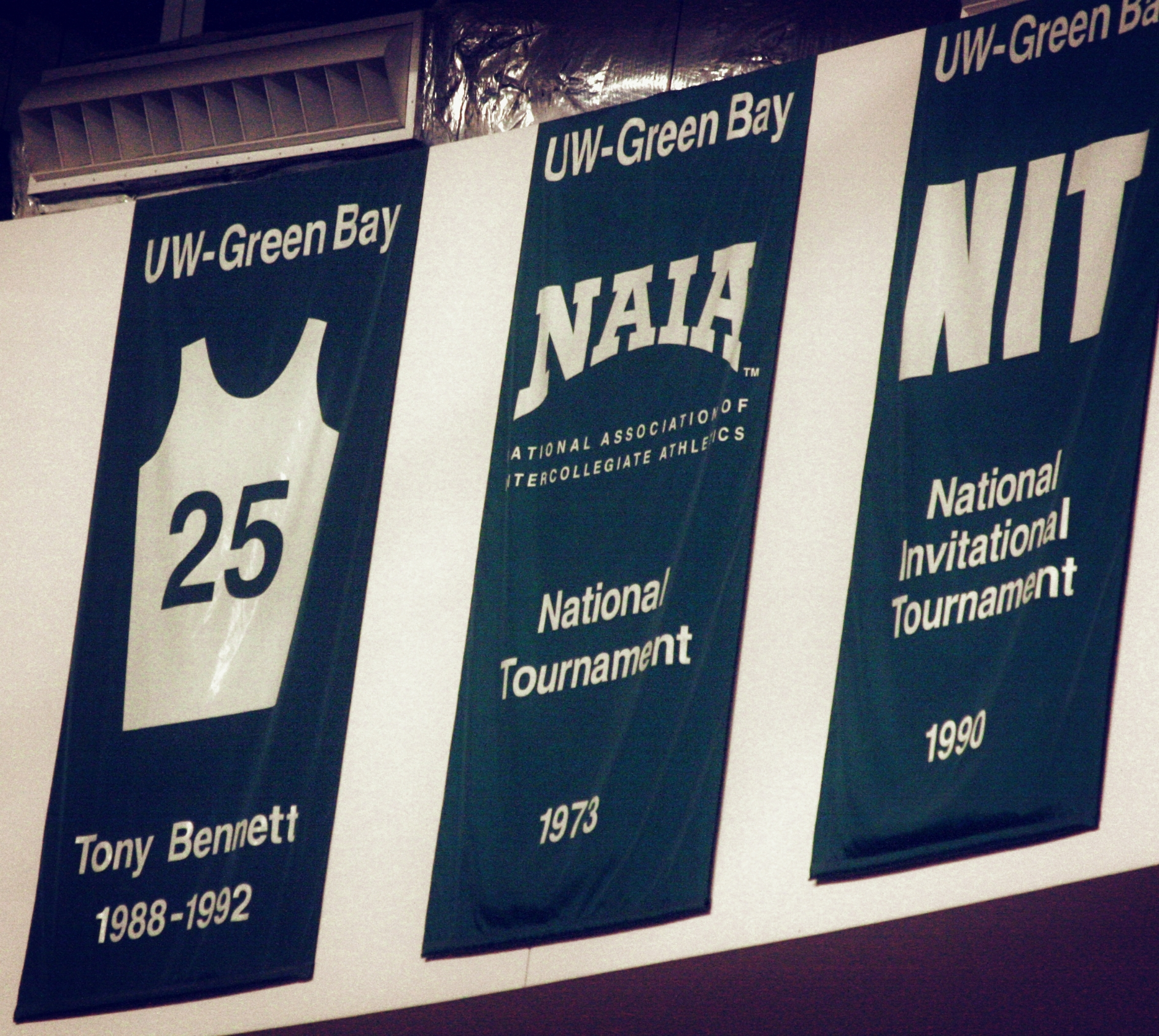 The retired jersey of former University of Wisconsin-Green Bay basketball player Tony Bennett in the Resch Center.